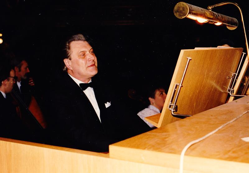 Endre Kovacs